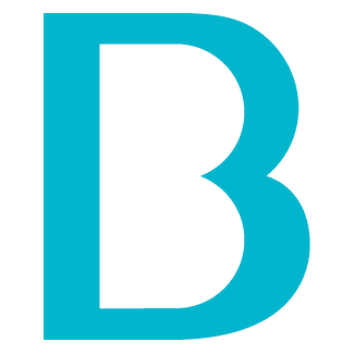 The Bible Society logo